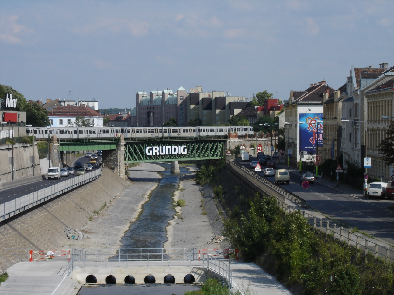 The U4 crosses the Wienfluss (Vienna River) near Hütteldorf, Vienna, Austria. Camera: SONY DSC-P100